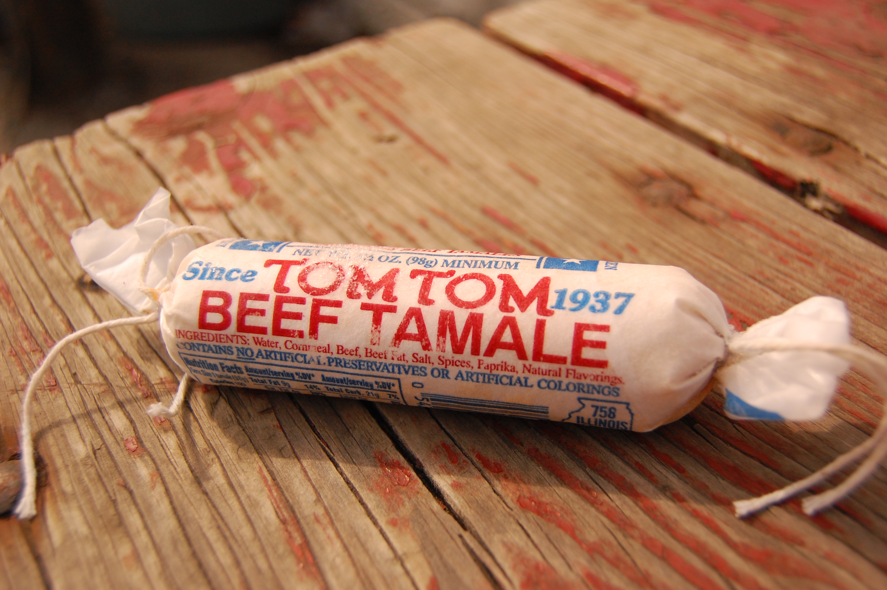 A Tom-Tom brand tamale, at Fat Johnnie's in Chicago. Photo by Amy C. Evans.